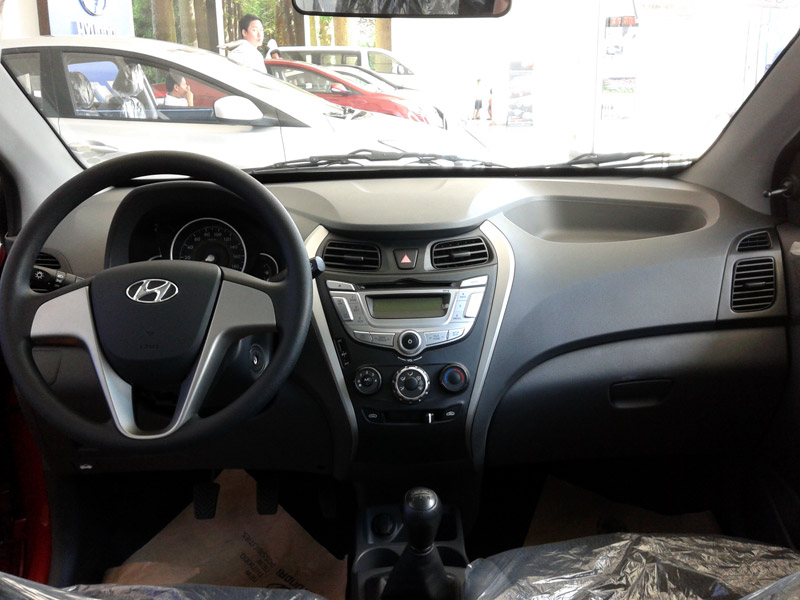 2012 Hyundai Eon (Philippine model)